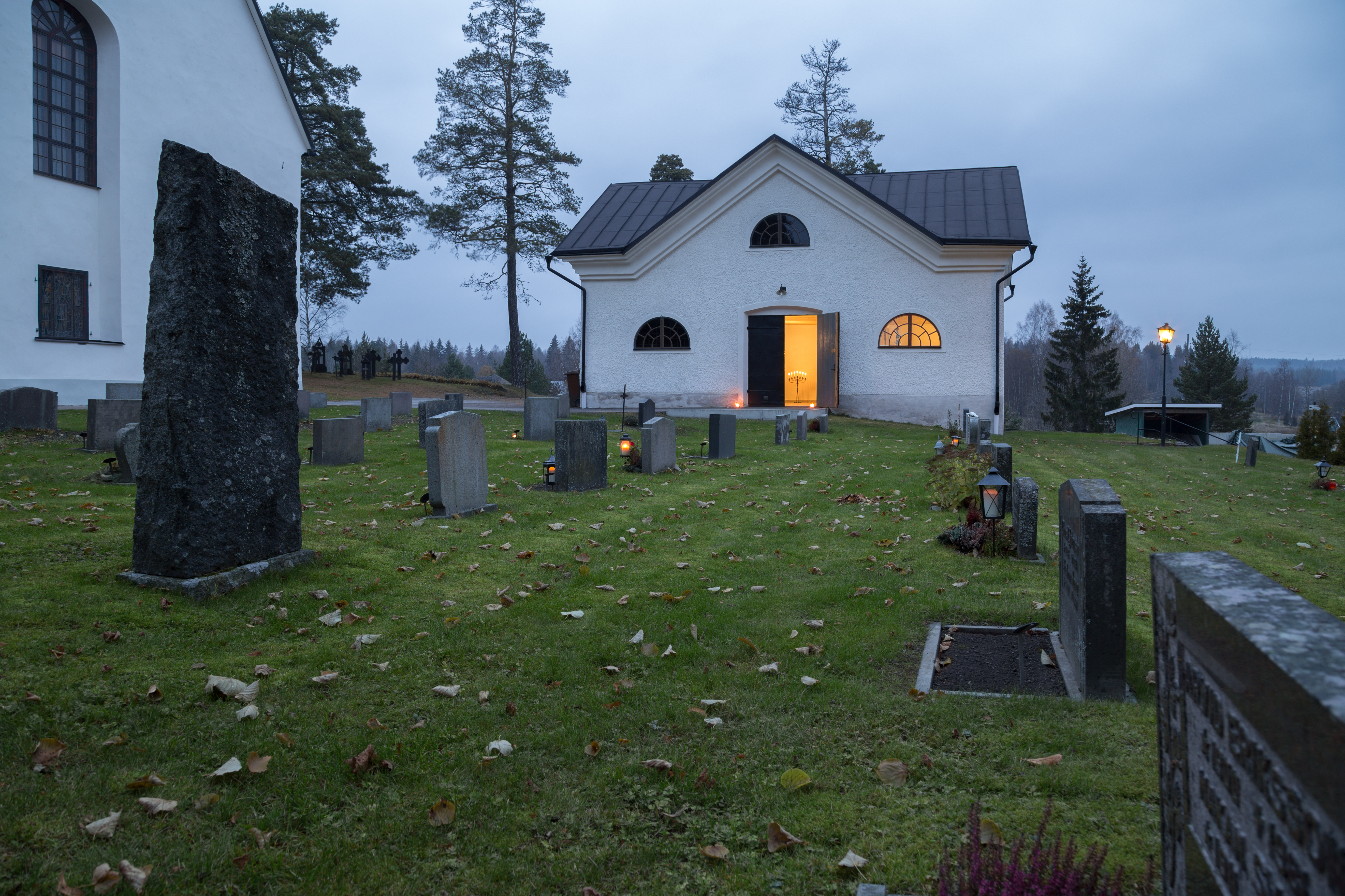 Dead house of Garpenberg church, built in 1861. Garpenberg, Hedemora Municipality, Dalarna County, Sweden.